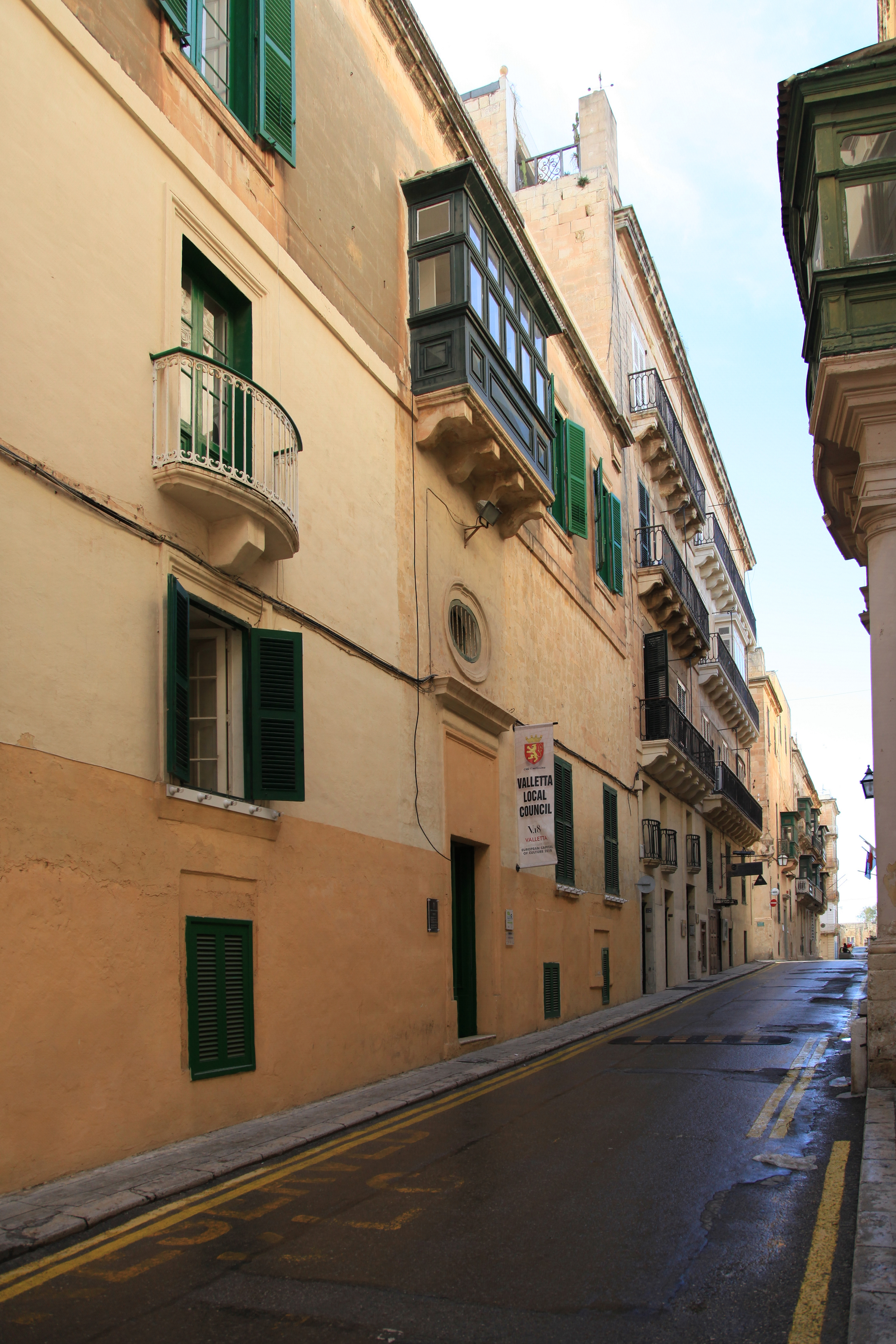 Local council (town hall) at Triq Nofs-in-Nhar in Valletta, Malta